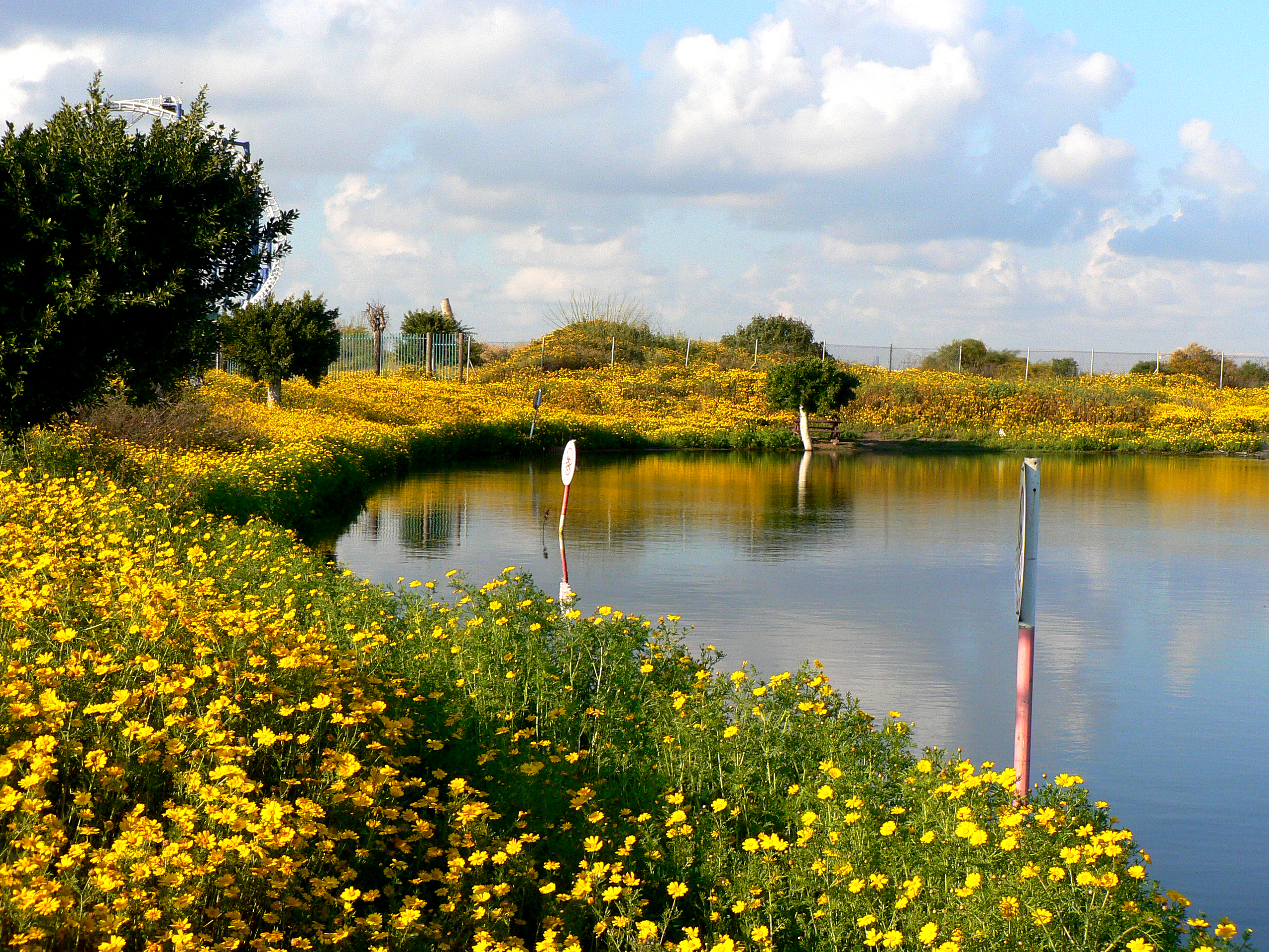 Rishon LeZion, Israel - The Lake's Park with Glebionis coronaria (a.k.a Chrysanthemum coronarium) yellow carpet